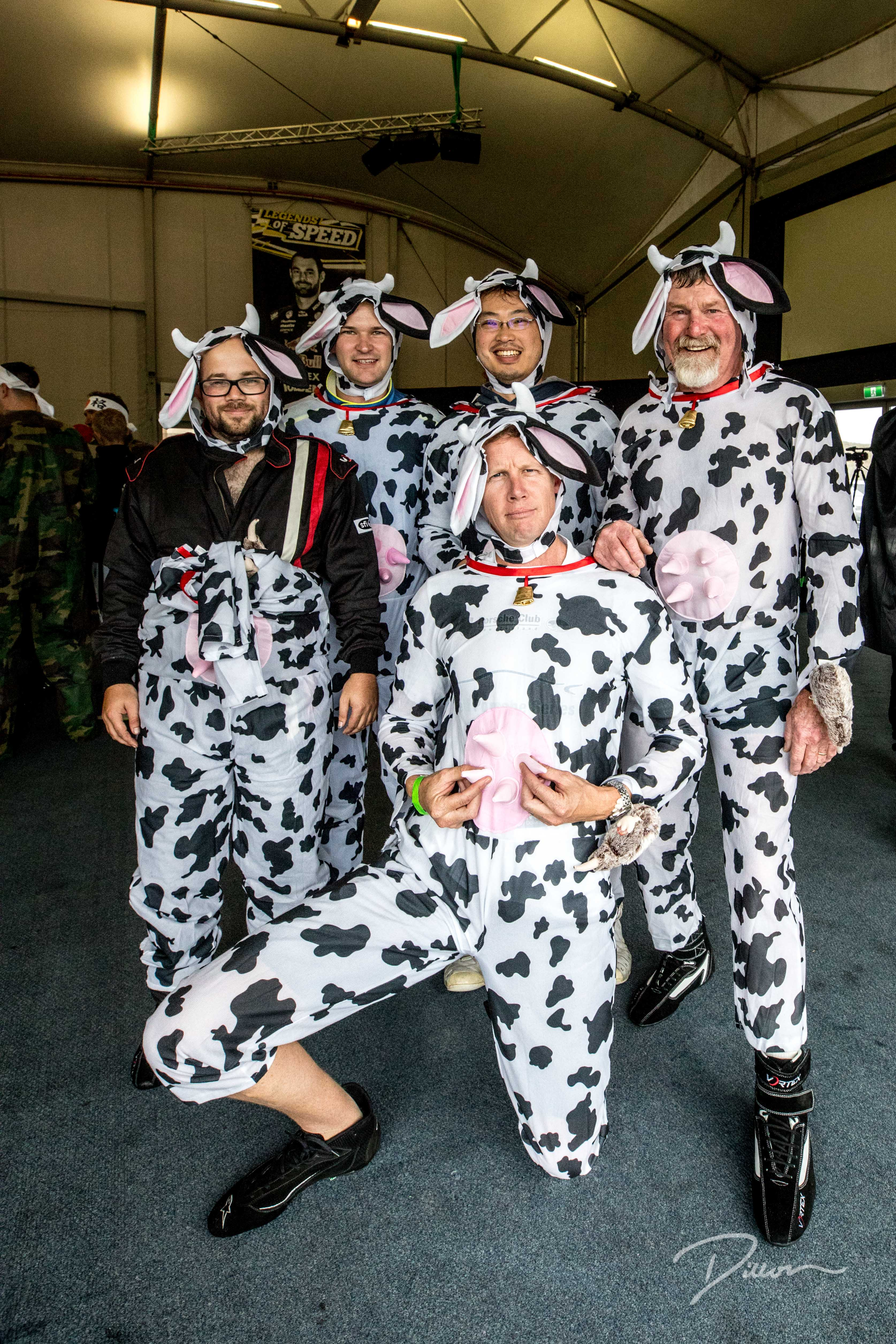 Teams of 5+ drivers, CRAZY themes, crappy cars, hilarious penalties, 24 hrs of fun - endurance racing at its best!